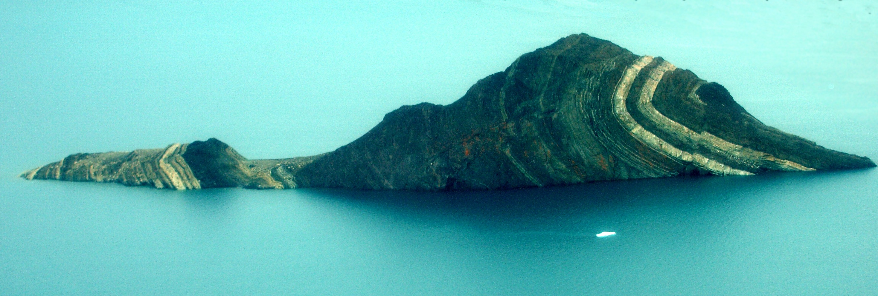 Folding from the Caledonian orogeny where Segelselskapets Fjord mouths into King Oscar Fjord, at 72°28'0.90"N, 24°41'55.44"W. The rock is of precambrian-cambrian age.